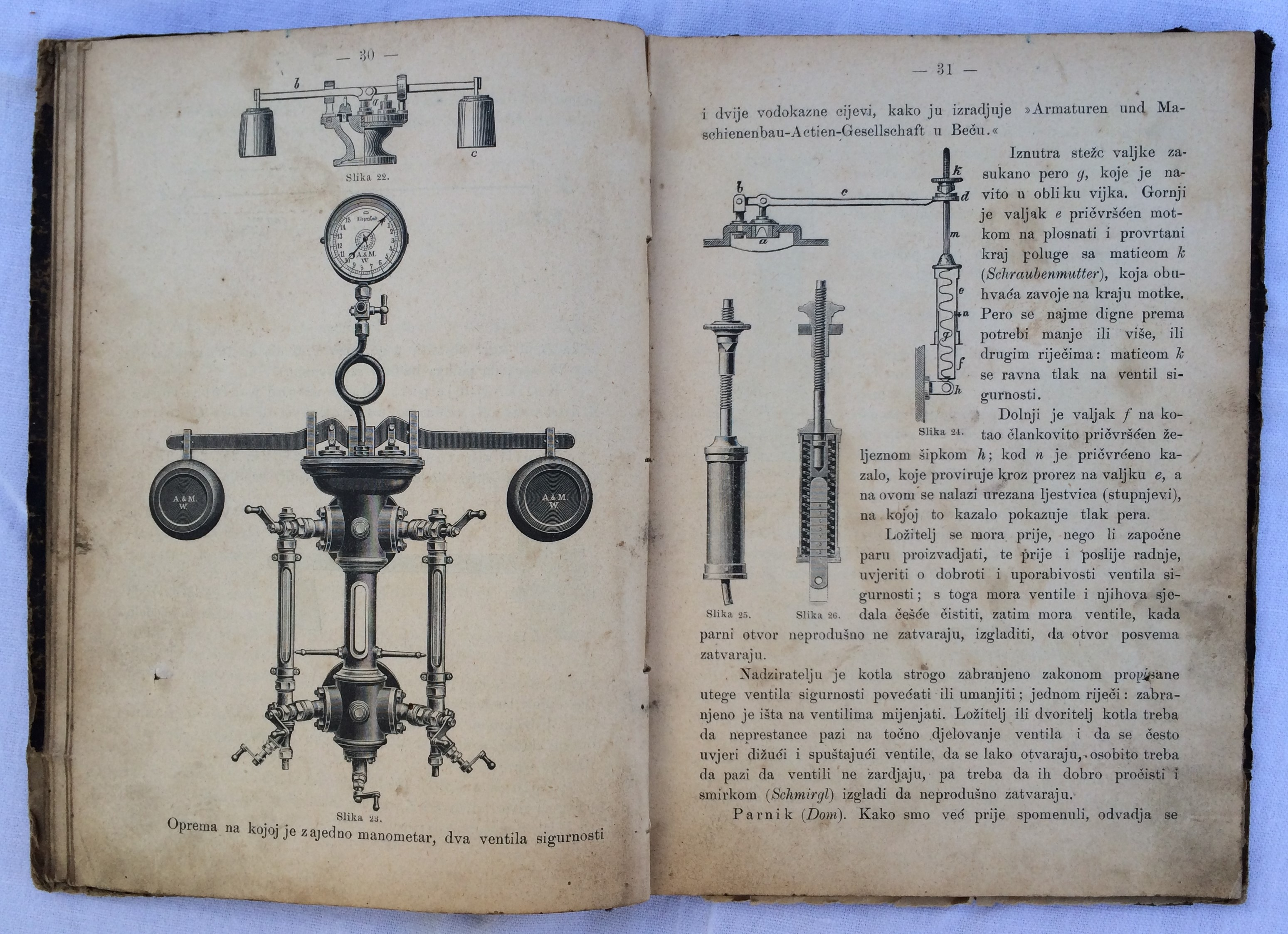 The first driving textbook in the Balkans, includes instructions for use of the steam boiler (steam engine). Zagreb, 1898. It can be found in the Society for Culture, Art and International Cooperation Adligat in Belgrade, Serbia.